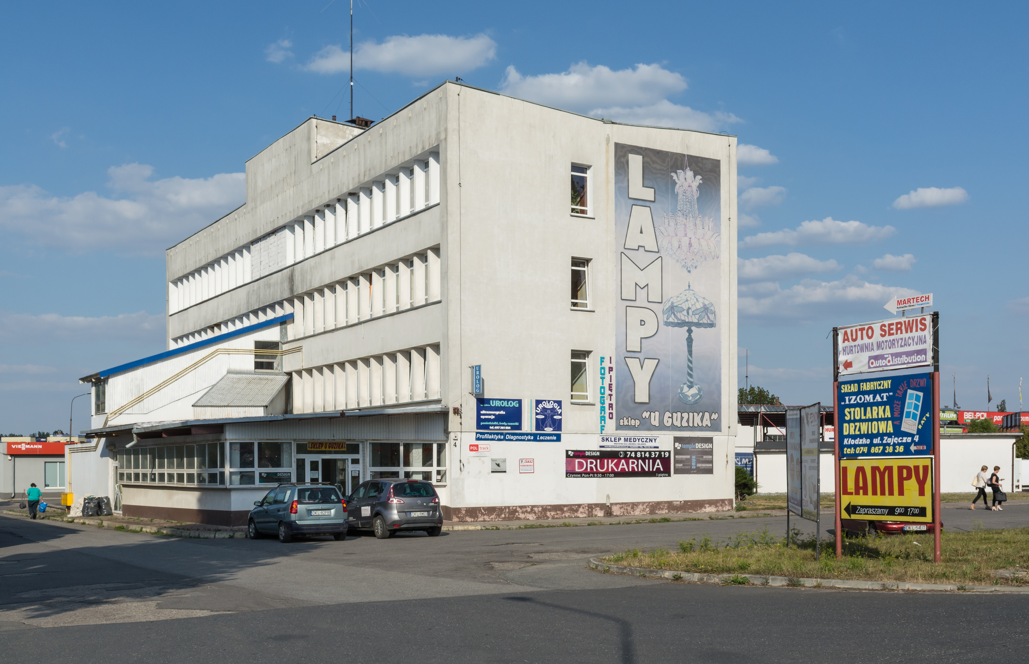 Zajęcza Street in Kłodzko